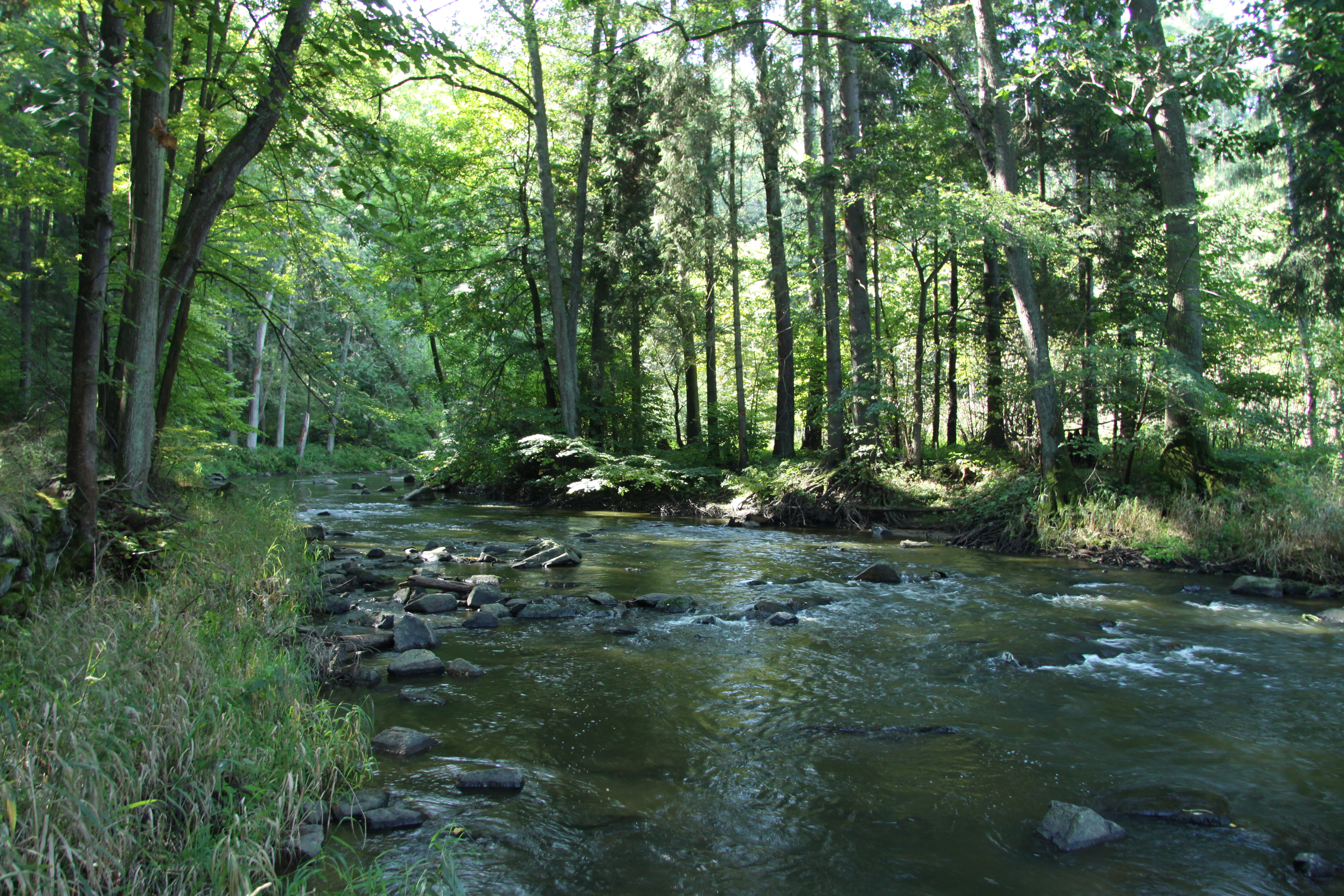 Natural monument V Obouch with Lomnice River in Písek District, Czech Republic.